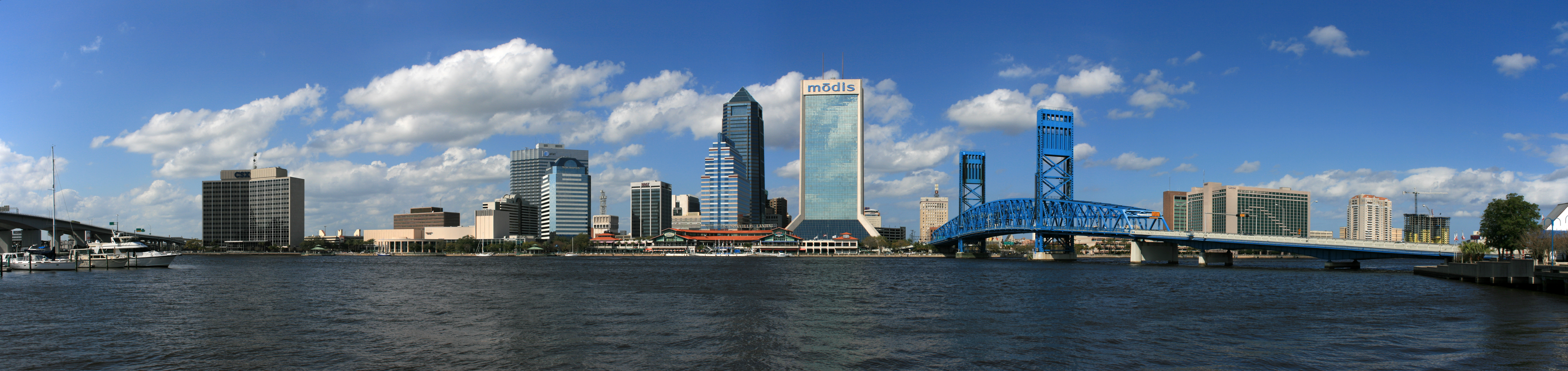 Panorama of the Jacksonville city skyline from across the St. Johns river in Jacksonville, Florida, USA. Jacksonville is the largest city in land area in the United States